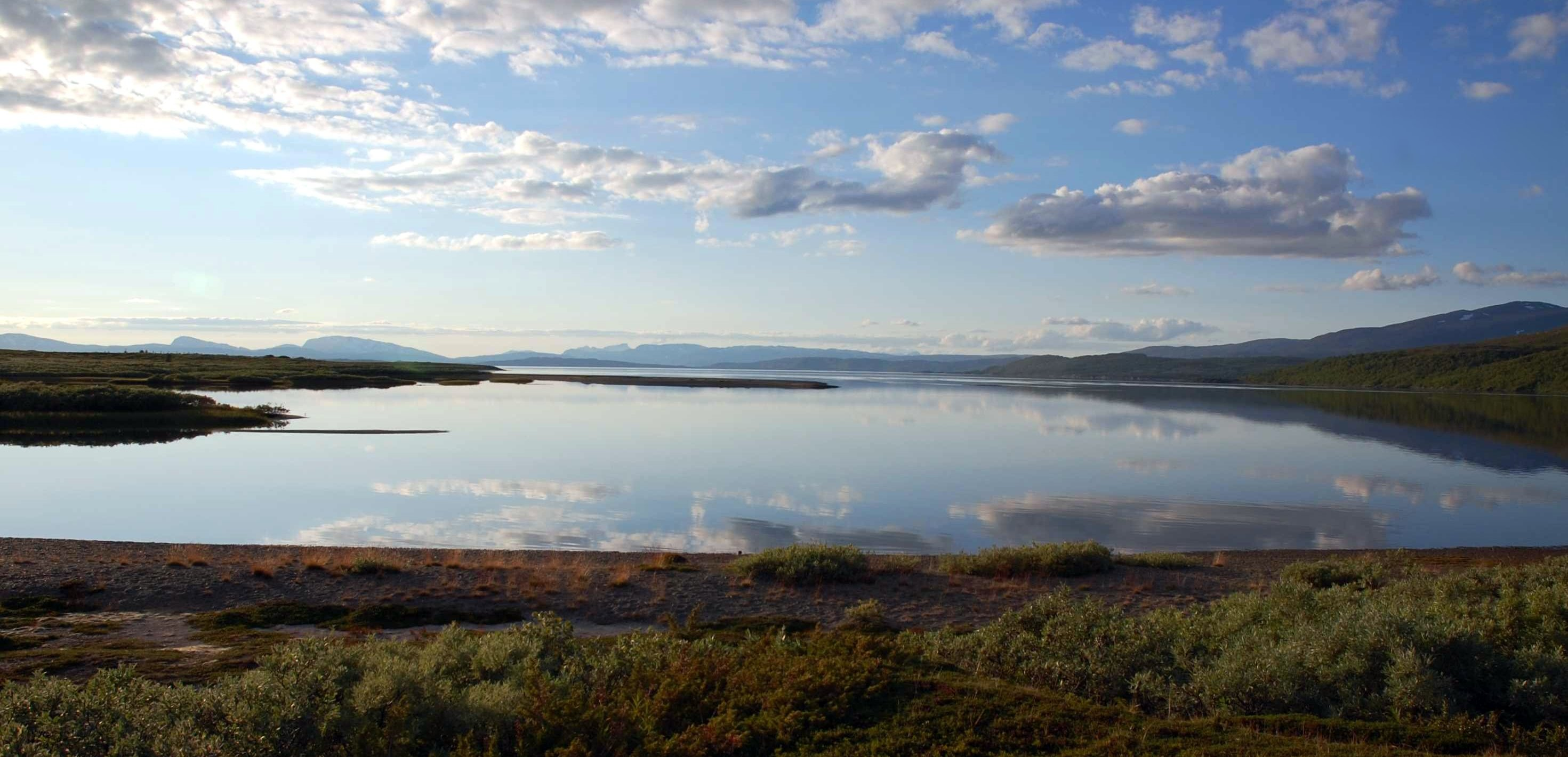 Evning at Viriaure in Padjelanta National Park